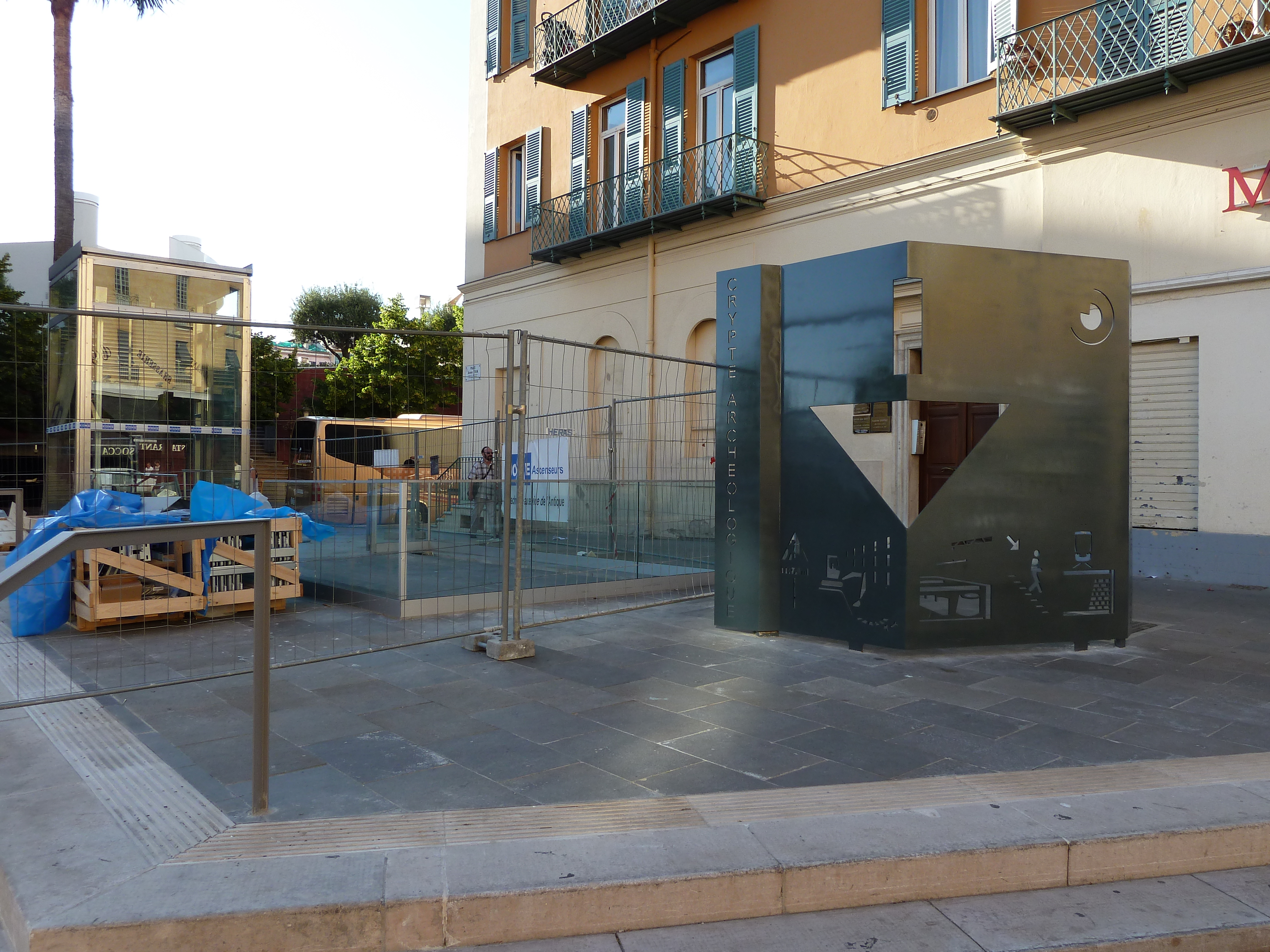 Archaeological crypt near Place Garibaldi in Nice